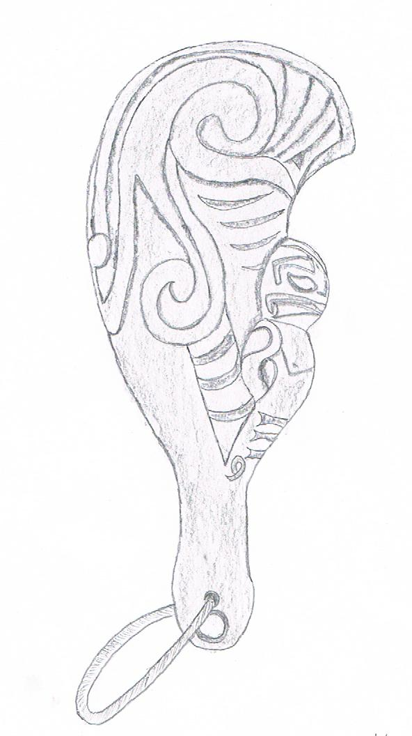 Wahaika